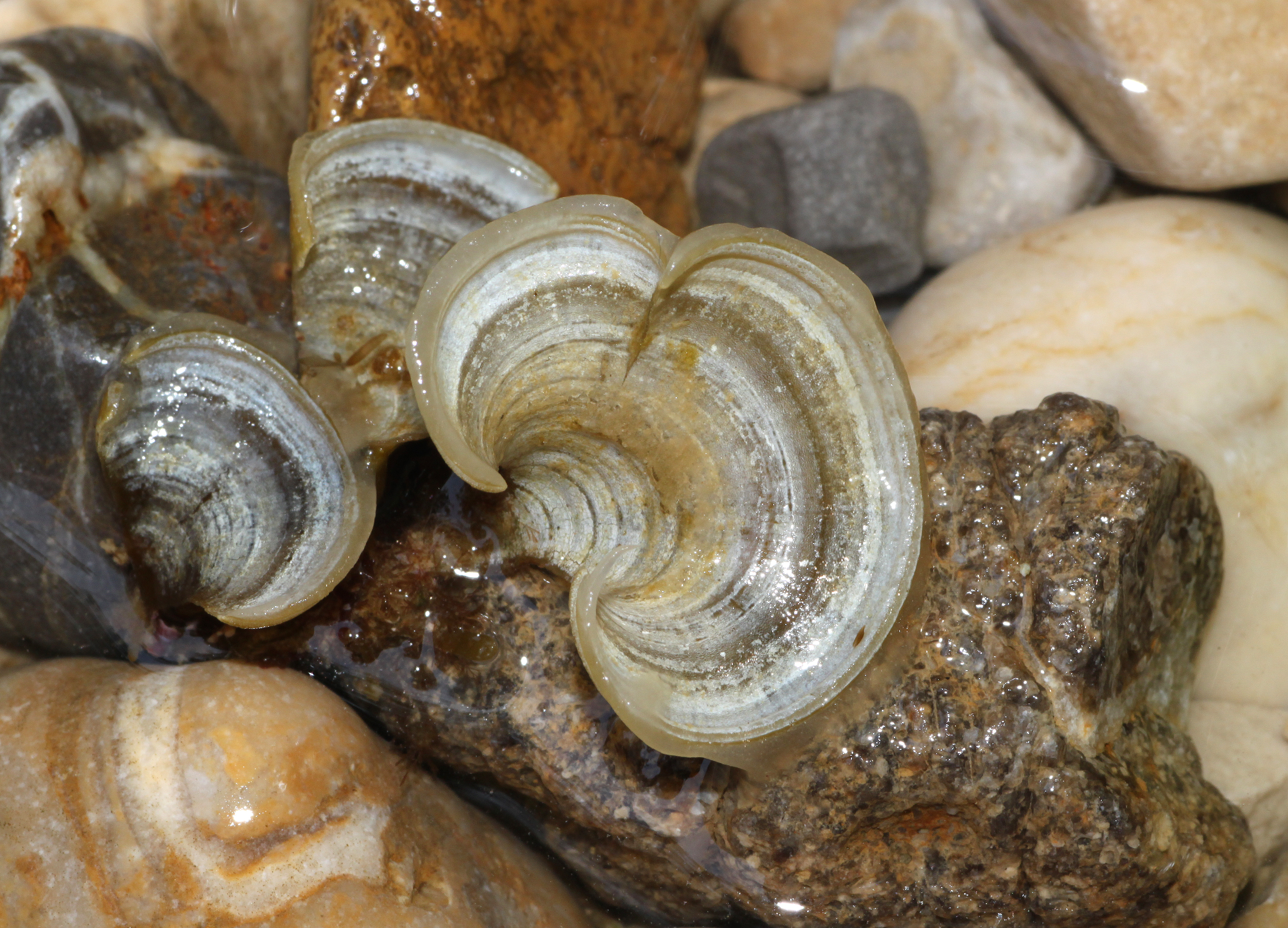 Peacocks Tail, Padina pavonica, Family: Dictyotaceae, Location: Croatia, Istria, Porec, Lanterna